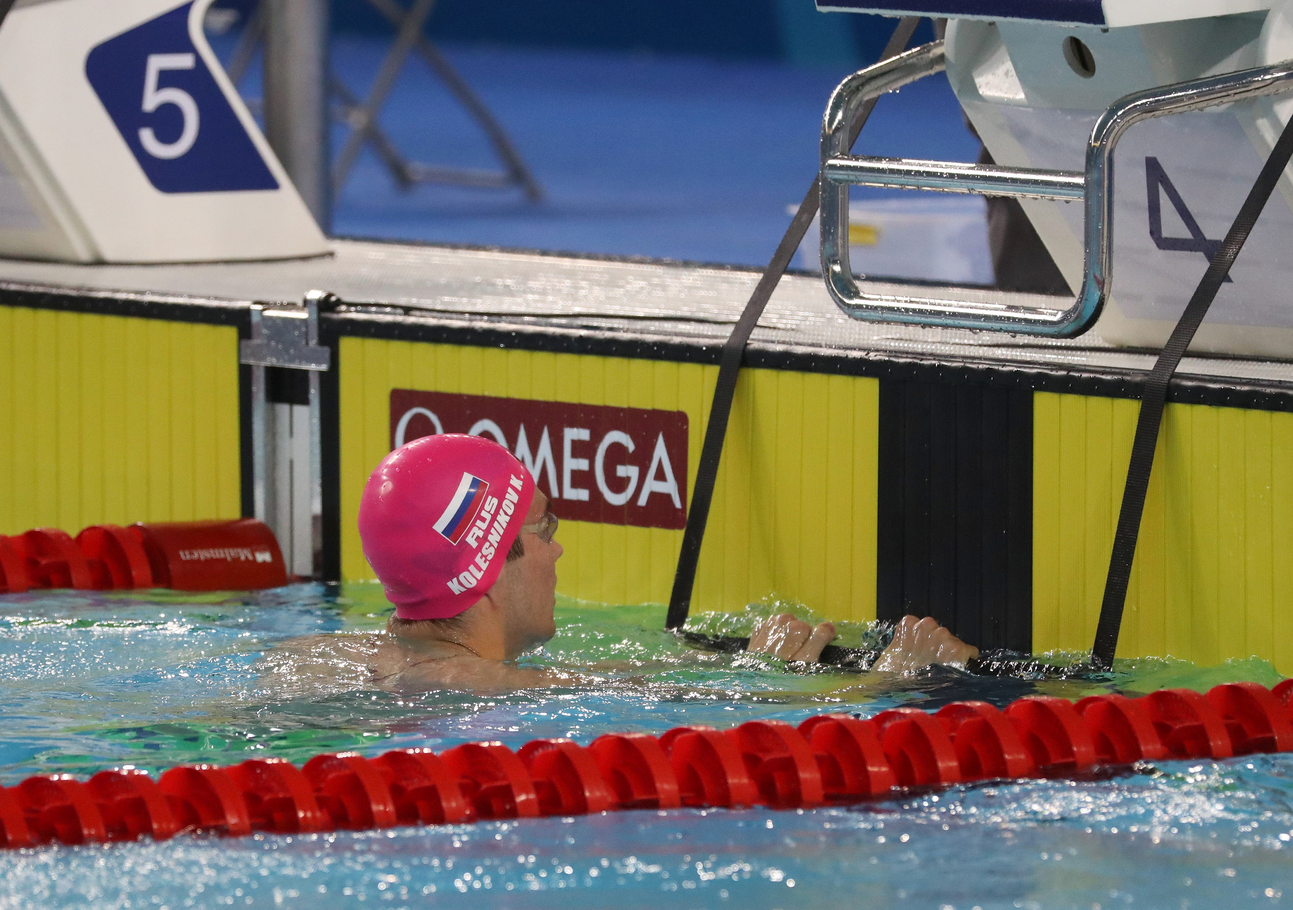 Swimming of boys' 100 m backstroke semifinal 2 at the 2018 Summer Youth Olympics in Buenos Aires on 7 October 2018.